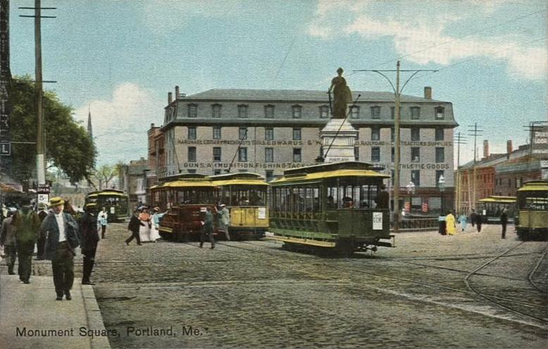 Trolleys in Monument Square, Portland, Maine; from a 1909 postcard published by the Hugh C. Leighton Company, Portland, Maine. (see also Category:Images of Maine)